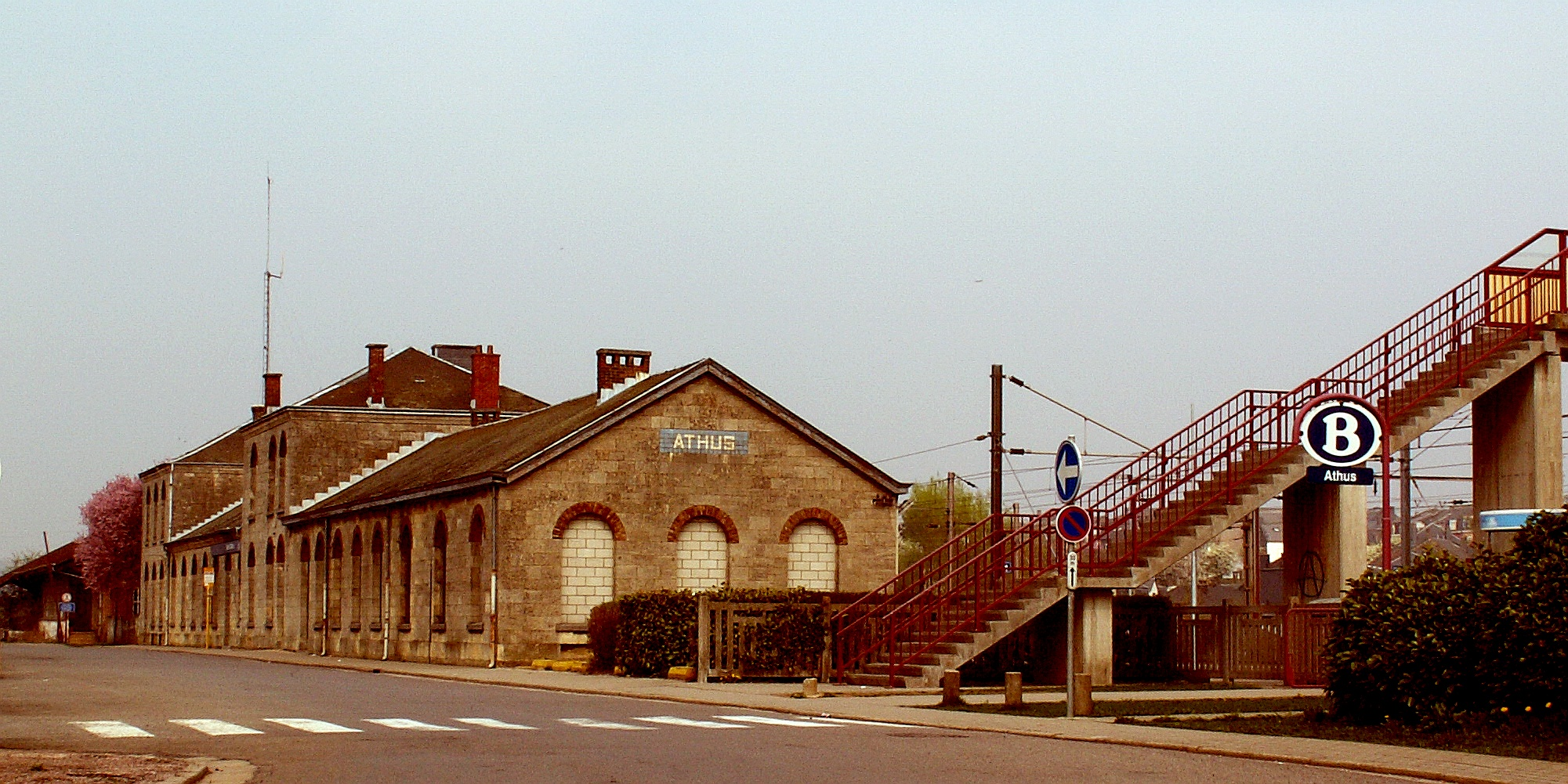 The station of Athus, Belgium, as seen from the street. This station used to be a busy international station until the seventies, allowing the surrounding steel industry from France, Belgium and Luxemburg to send their products to customers all around europe. It was also a hub station for workers of those industries. During the '90s, the station was only reached by passenger trains from Luxembourg. Connexions in Belgium were replaced by bus. Since 2008, as the south of Belgium is increasingly becoming "sleeping suburbs" of Luxembourg City, a passenger train service is again organized between Arlon and Virton, through Athus adn Rodange (the later is the new hub with connexions to Longwy (In France), Arlon and Virton (In Belgium) and 2 lines to connect Luxemboug City (via Dippach or via Esch sur Alzette.